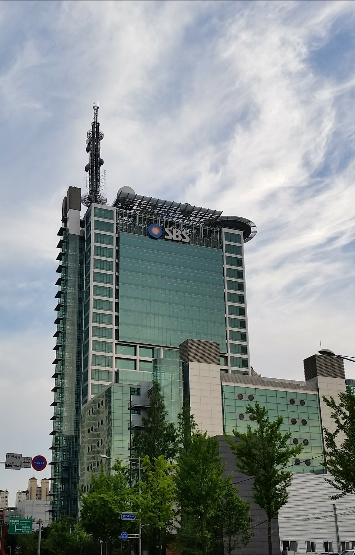 양천구 목동에 위치한 SBS 본사이다.